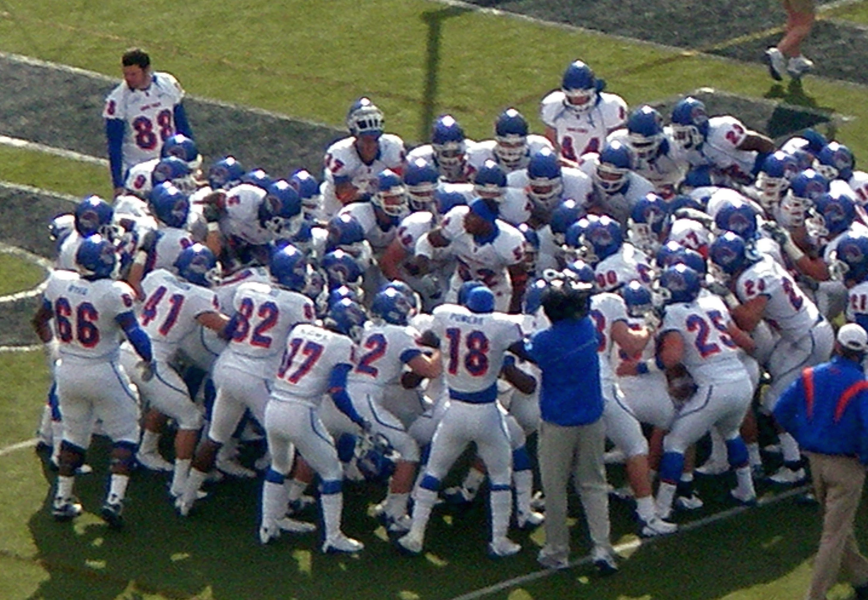 Boise State players during pregame vs nevada in 2008